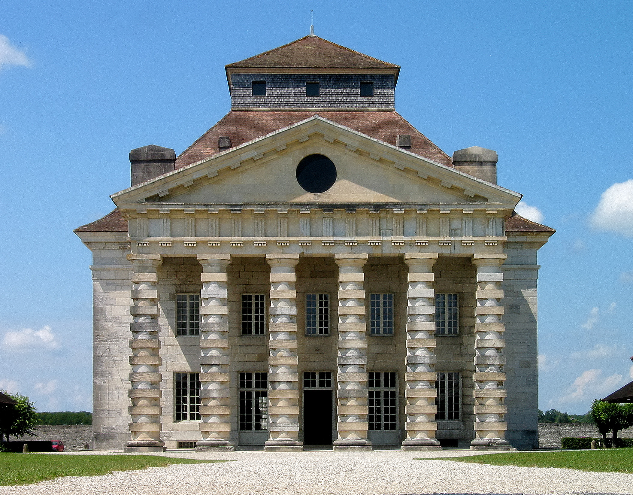 House of Directors at the Saline Royale d'Arc et Senans, France.